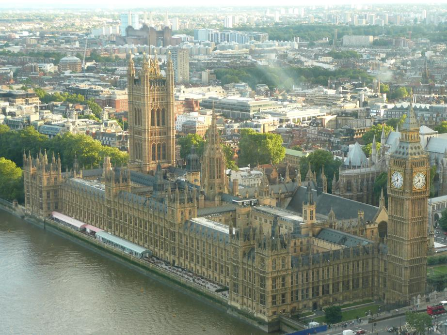 Palace of Westminster